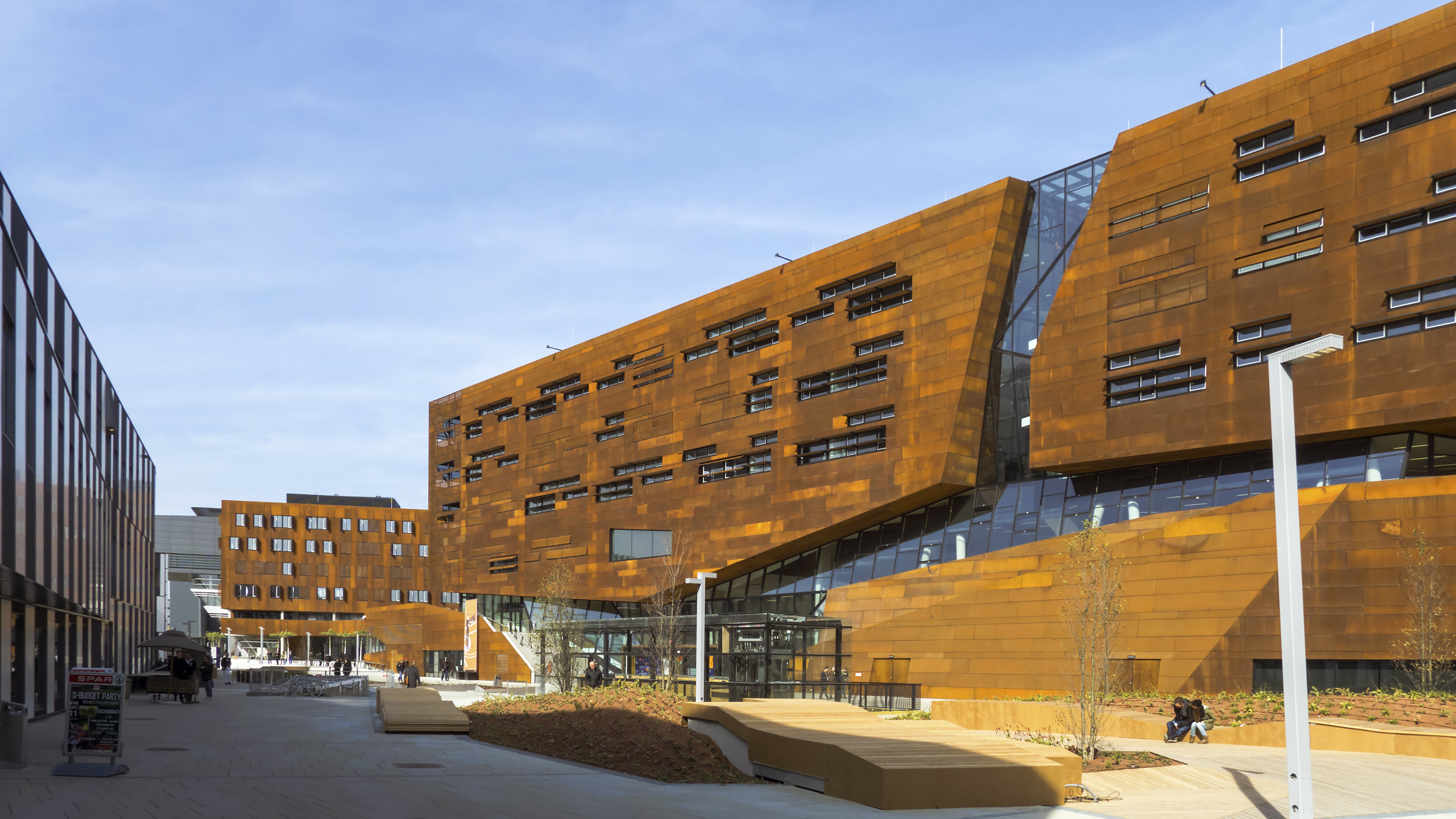 Campus WU of the Vienna University of Economics and Business in Vienna 2